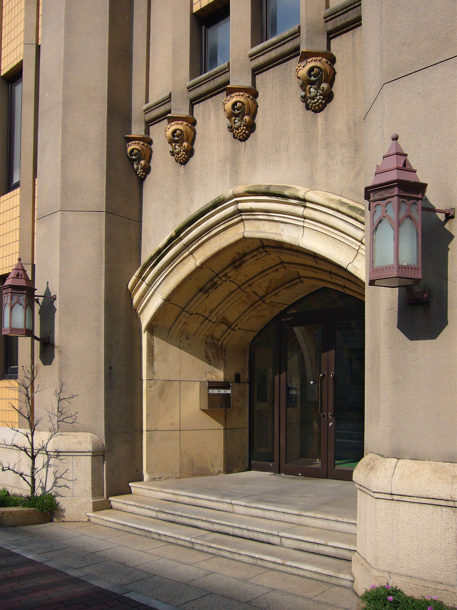 The old Kobe municipal Raw Silk Conditioning Houses in Kobe, Japan